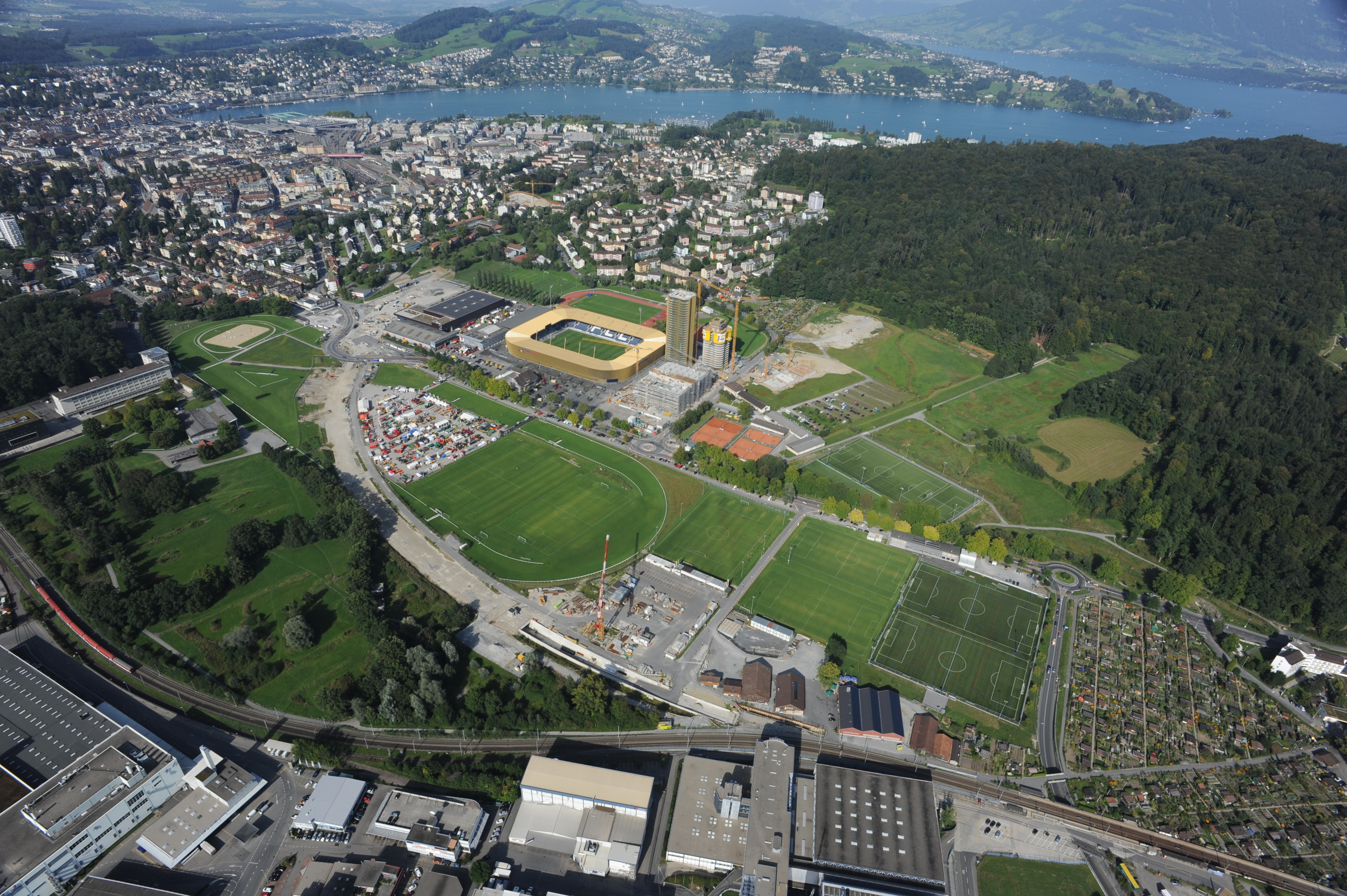 Aerial view of Lucerne Allmend with swissporarena, looking to the northeast. The view showing the route of the new railway tunnel under construction, curving across the green area in front of the stadium. The new Lucerne Allmend/Messe railway station is situated to the left of the stadium. To the left side of the shot, a train can be seen on the, now abandoned, old rail alignment, whilst Kriens Mattenhof station is to the bottom right. For more information, see Wikipedia articles Lucerne Allmend/Messe railway station, Kriens Mattenhof railway station and Swissporarena.